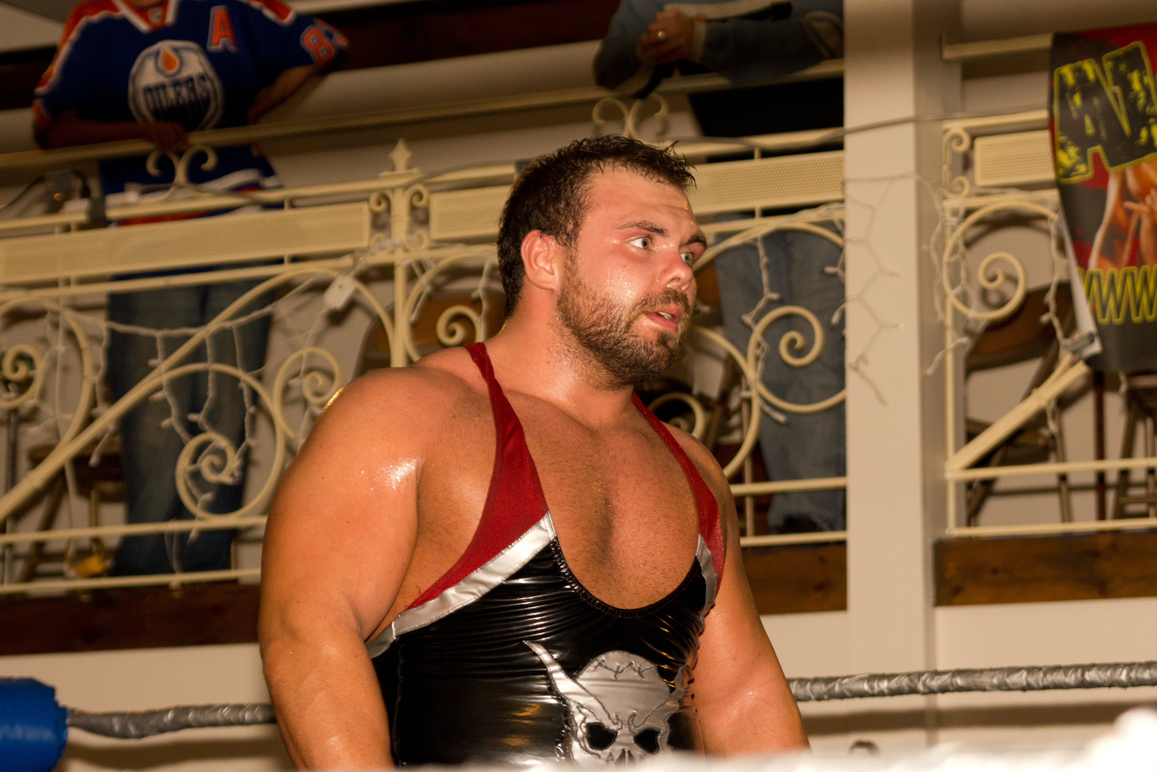 Michael Elgin at Alpha-1 Wrestling: Final Act 2 in October 2011.